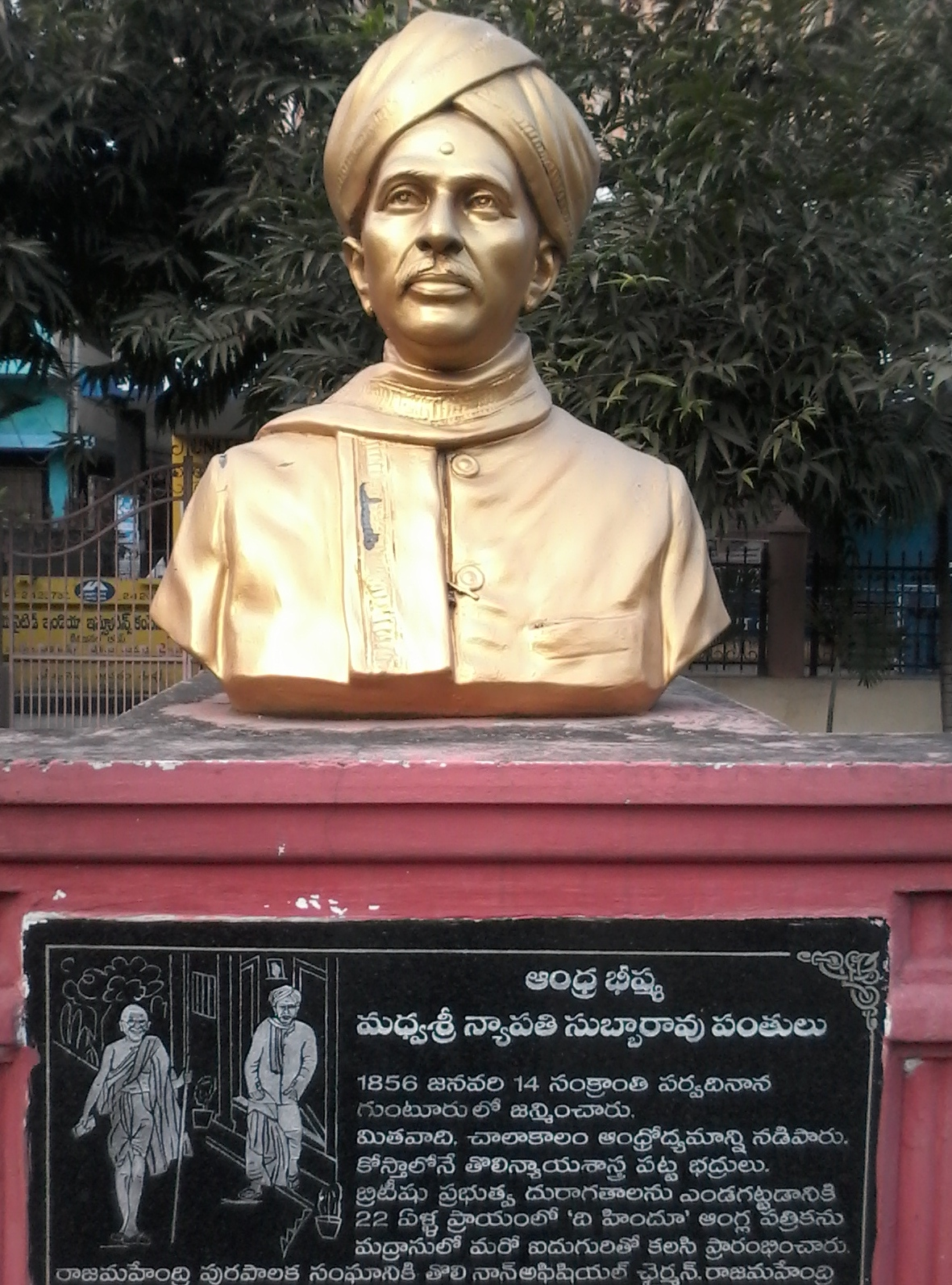 nyapathi subbarao panthulu statue at freedom fighters' park, rajahmundry